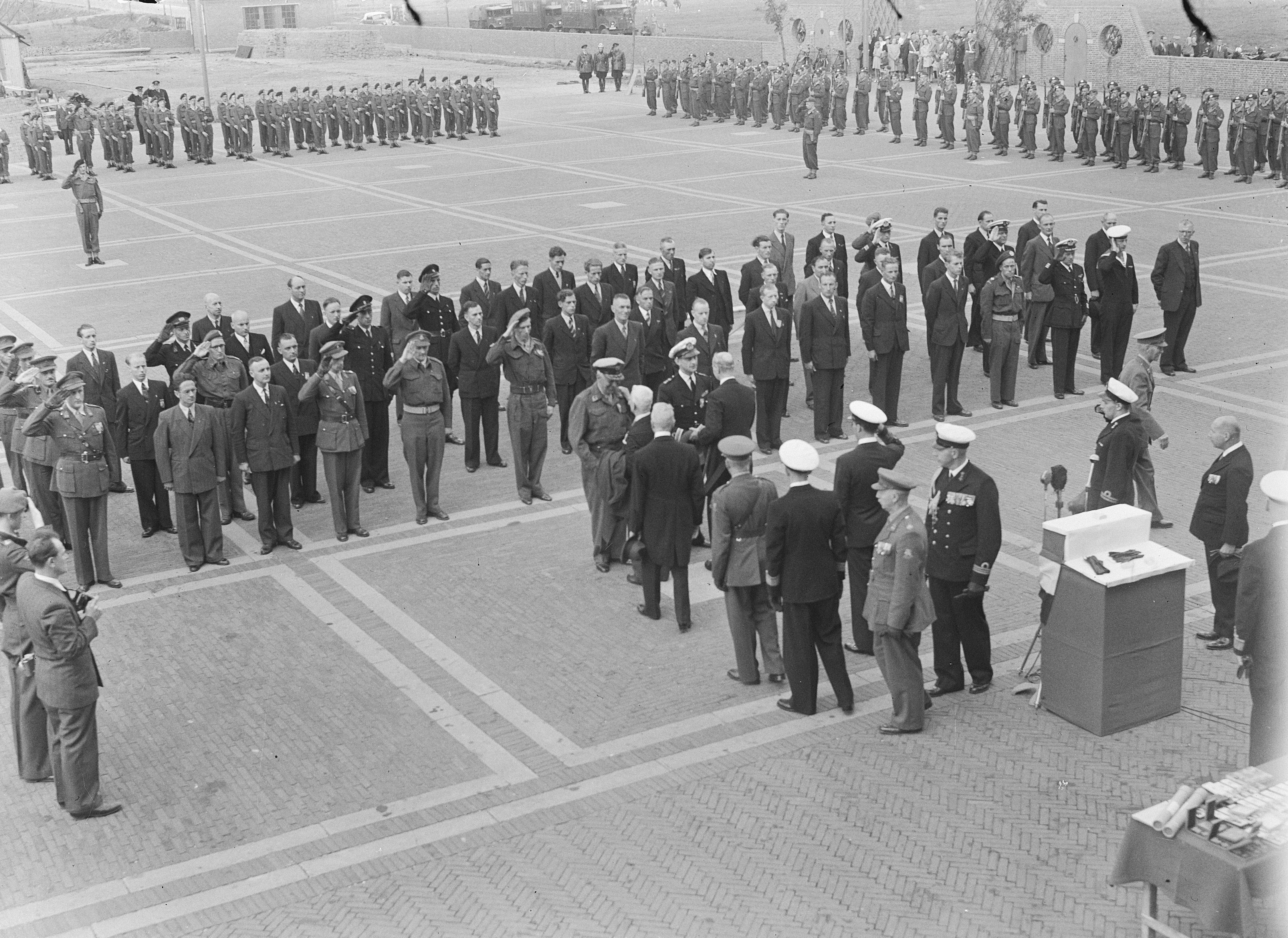 Uitreiking Militaire Willems-Orde door prins Bernhard aan generaal-majoor der Infanterie van het KNIL S. de Waal (voorgrond) en majoor der Mariniers C.G. Lems in de mariniershaven Rotterdam.